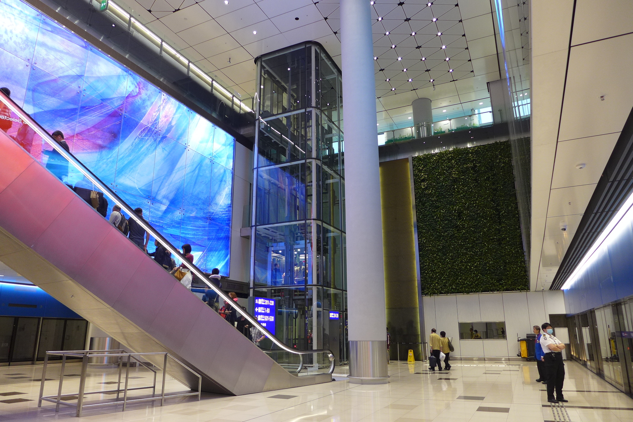 Hong Kong International Airport Midfield Concourse